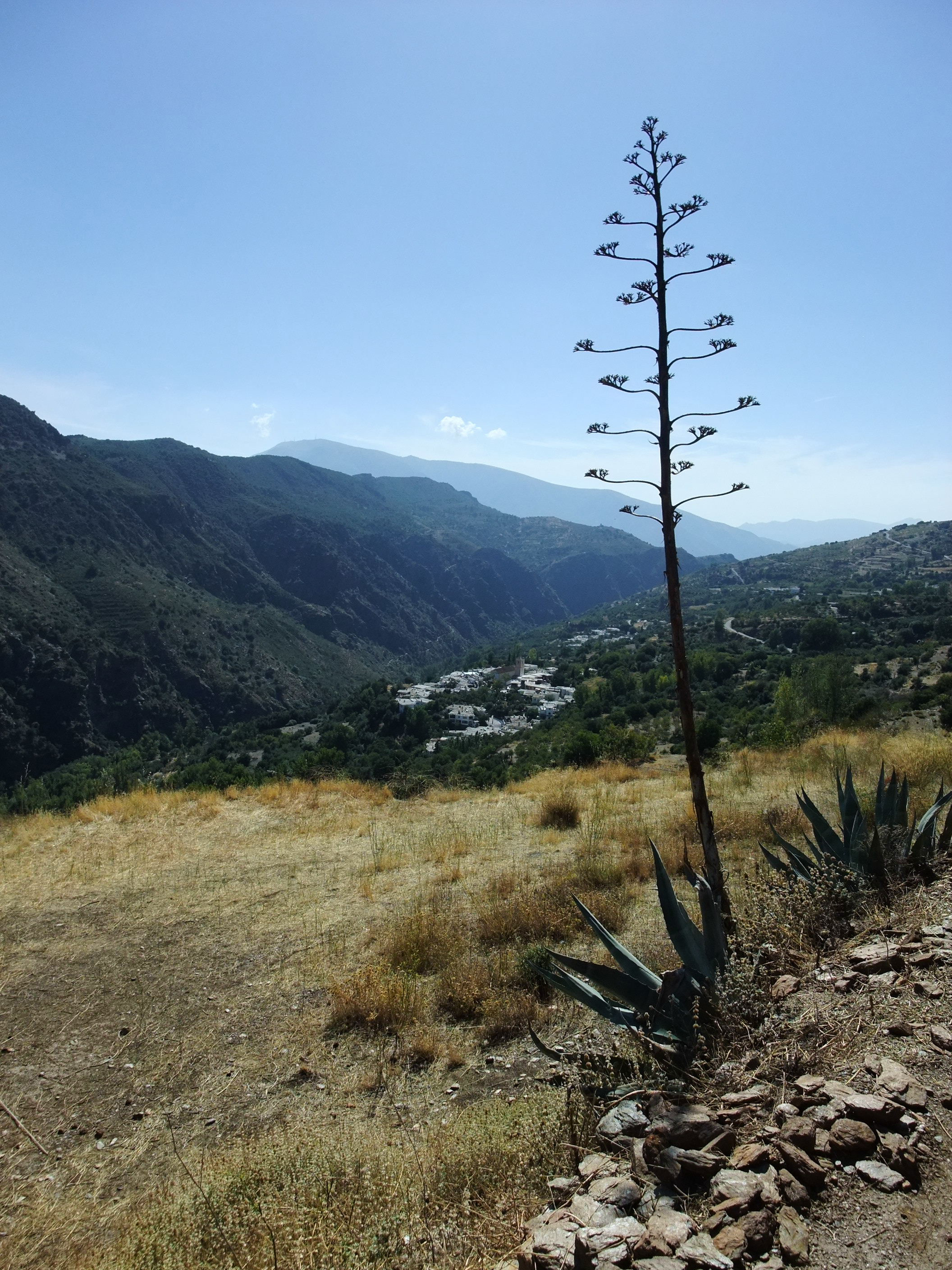 Landscape east of Portugos, Granada in Spain